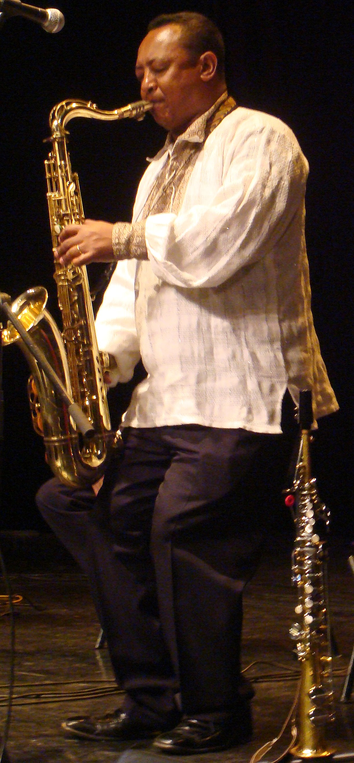 Abatte Barihun at a concert of Tezeta Ensemble